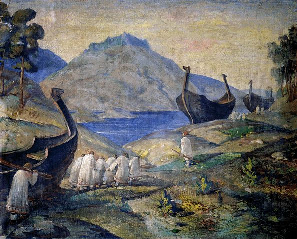 Ancient russians pull the ships from river to another river. «Волокут волоком». Н.К. Рерих. Музей Николая Рериха, США. Нью-Йорк